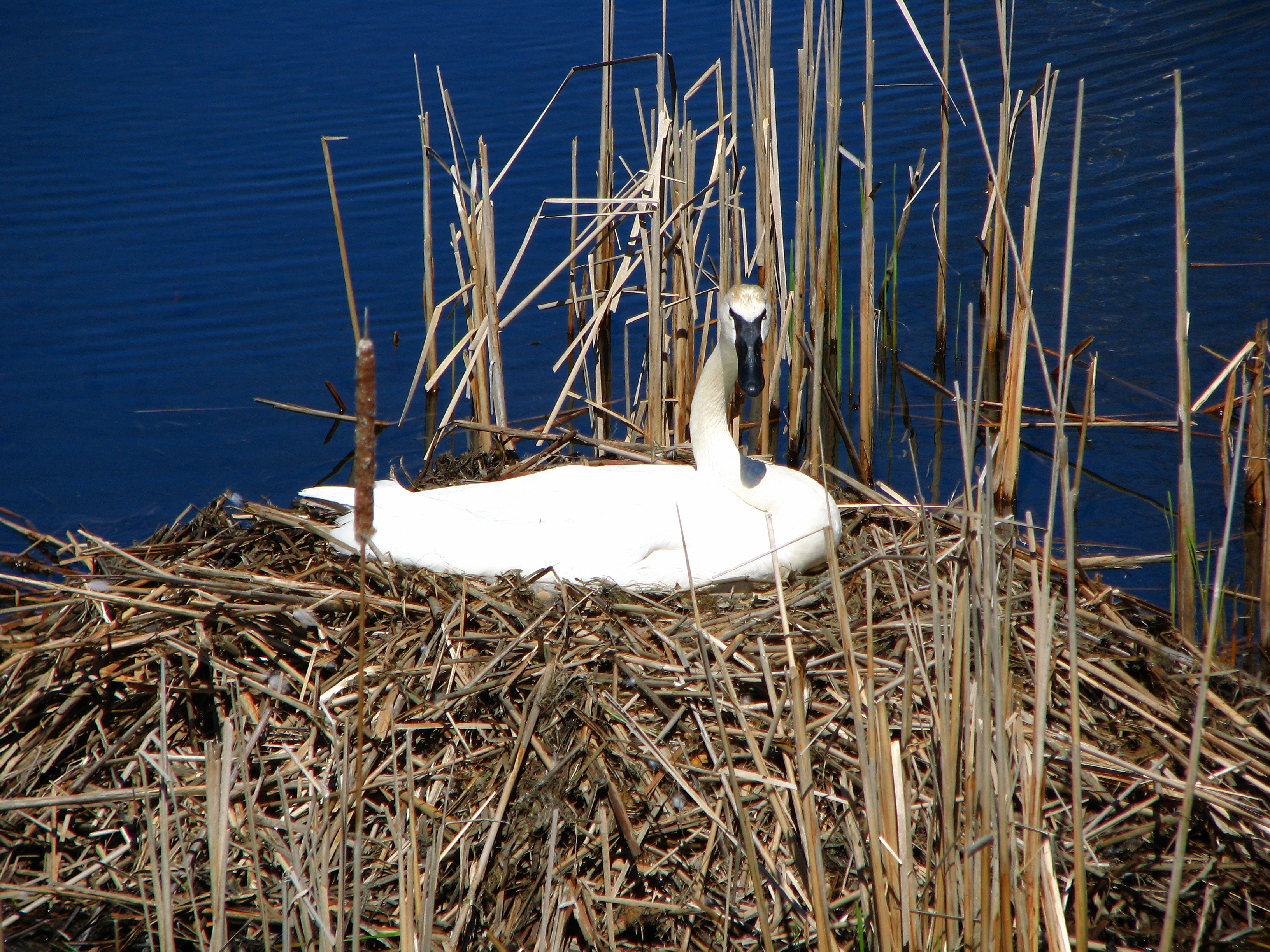 A Trumpeter Swan on a nest at Toronto Zoo, Ontario, Canada.